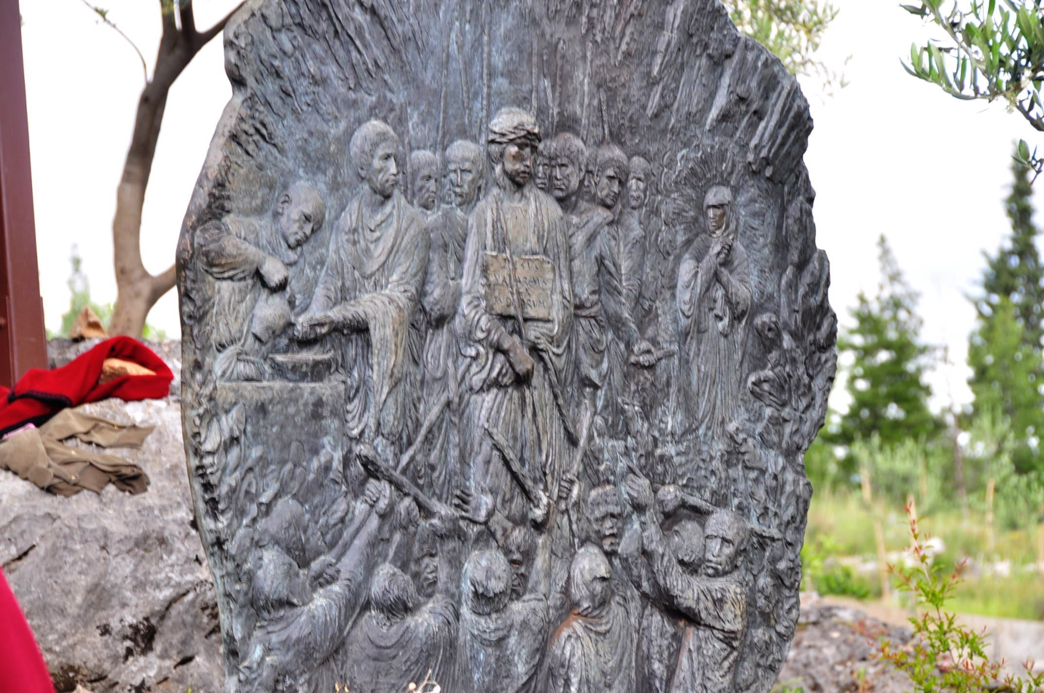 medjugorje bosnia herzegovina apparitions virgin mary roman catholic pension pansion porta travel creative commons cc gnuckx panoramio flickr map geotag wiki wikipedia